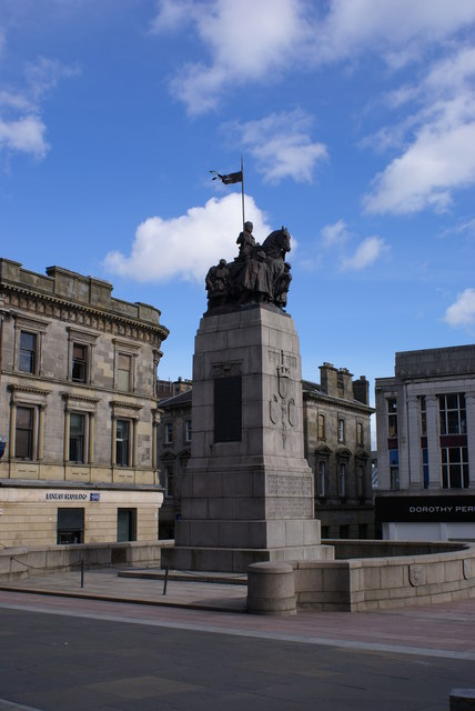 Paisley War Memorial Unveiled in 1924 to honour the fallen in the Great (1st) War.